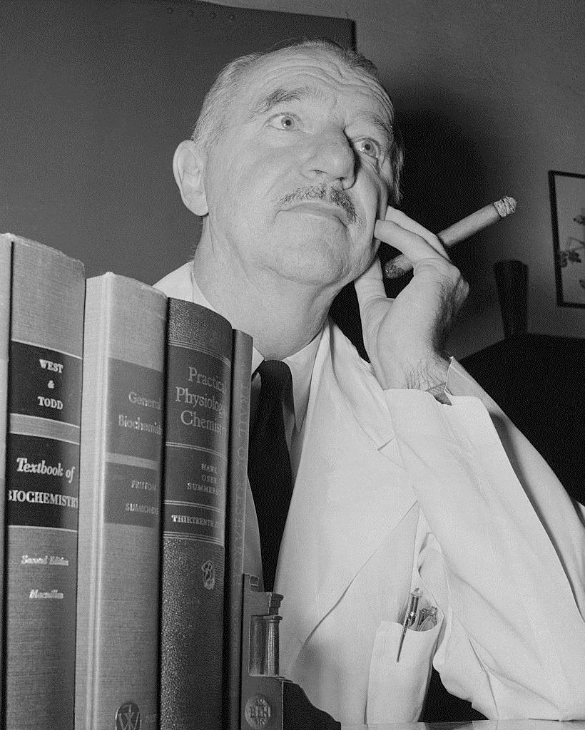 1955 Nobel Prize Chemist Dr Vincent Du Vigneaud w Cigar Cornell U Press Photo